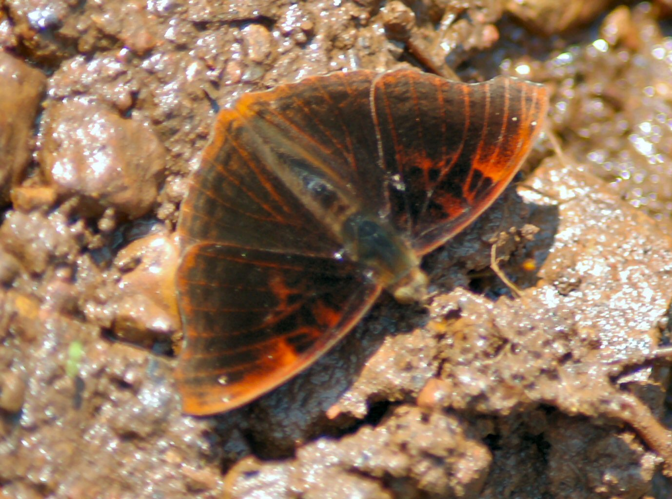 Family : Nymphalinae; Scientific name:Rohana parisatis siamensis